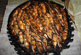 Tinapa (smoked fish) made in Calbayog City